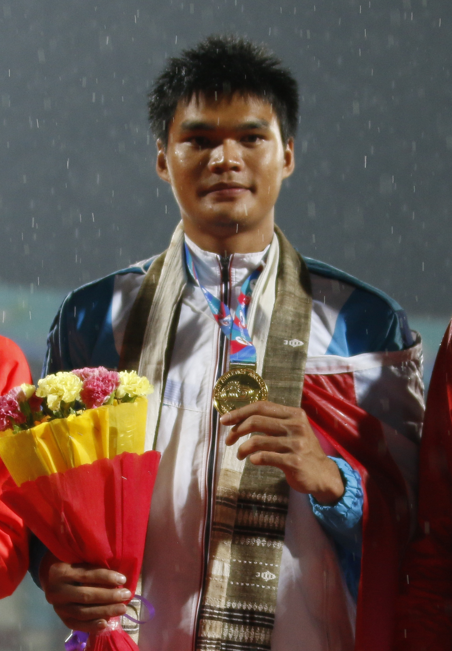 Athletes during 22nd Asian Athletics Championships in Bhubaneswar.